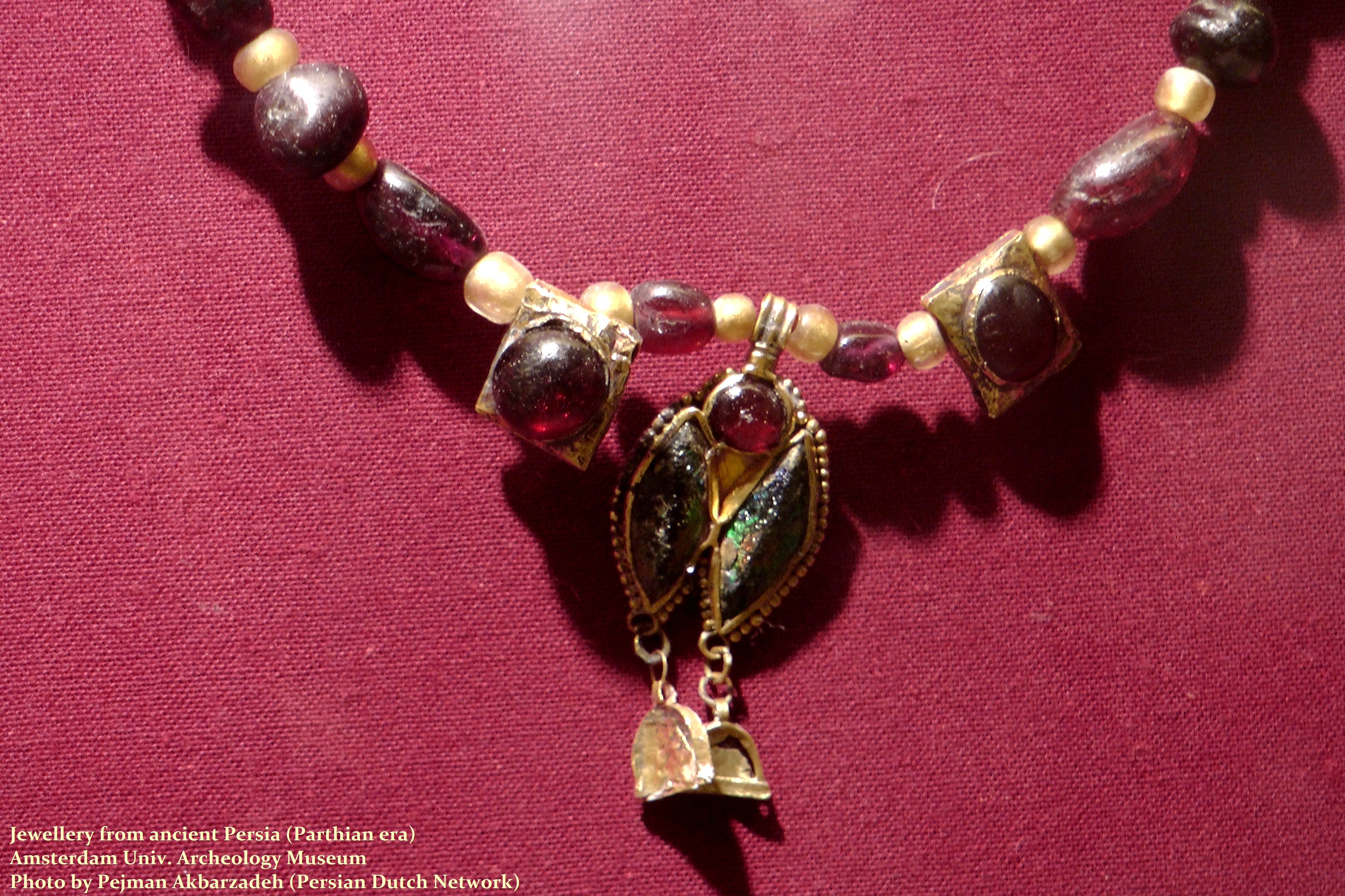 Jewellery from ancient Persia (Parthian era: ca. 200 BC - 200 AD); Amsterdam Archeology Museum (Het Allard Pierson Museum) - Photo by Pejman Akbarzadeh (Persian Dutch Netowk, 2012)